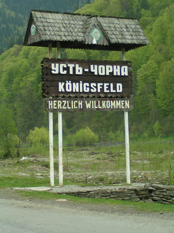 Entering village Ust'-Chorna (Königsfeld)